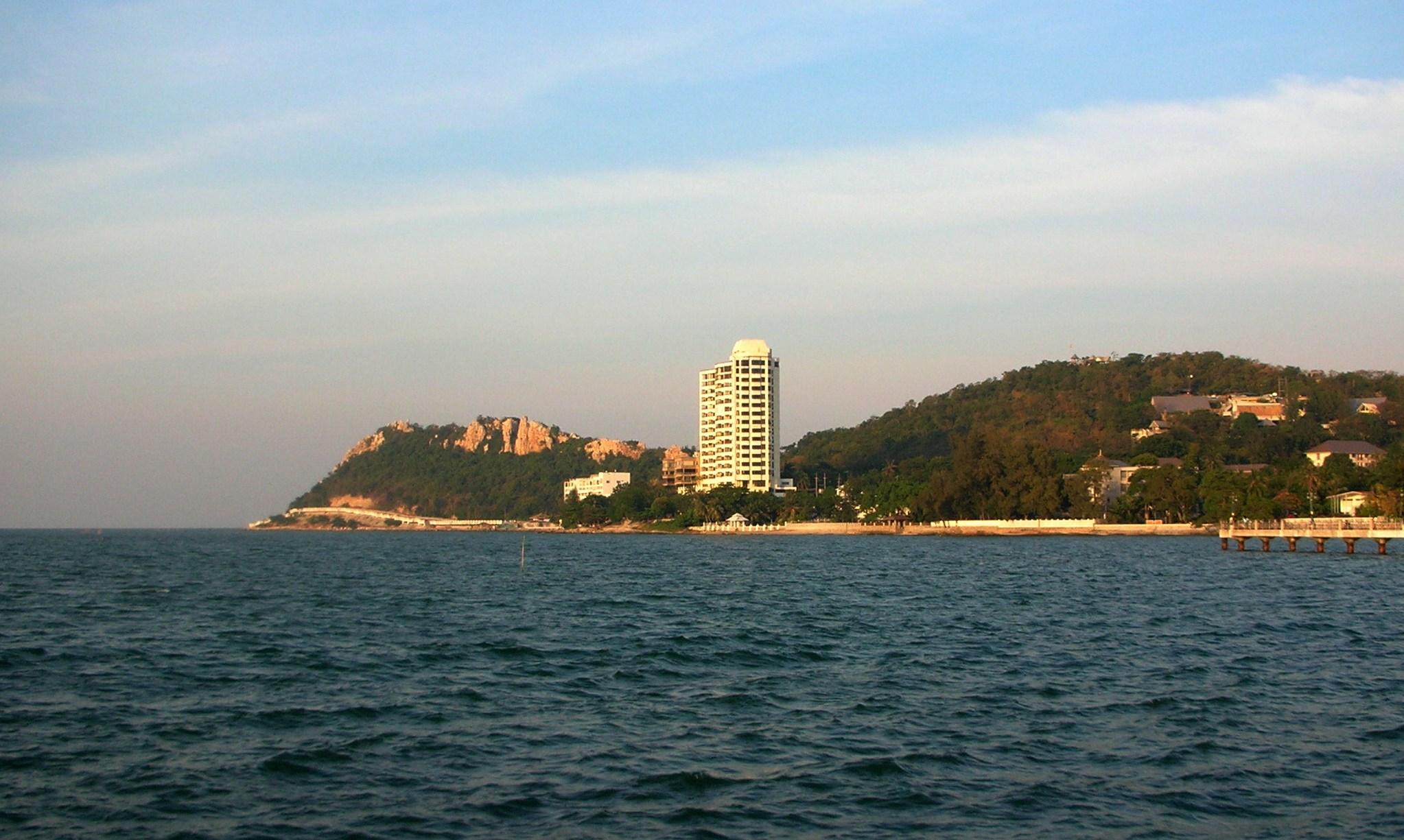 View of Khao Sam Muk (เขาสามมุข) from the south